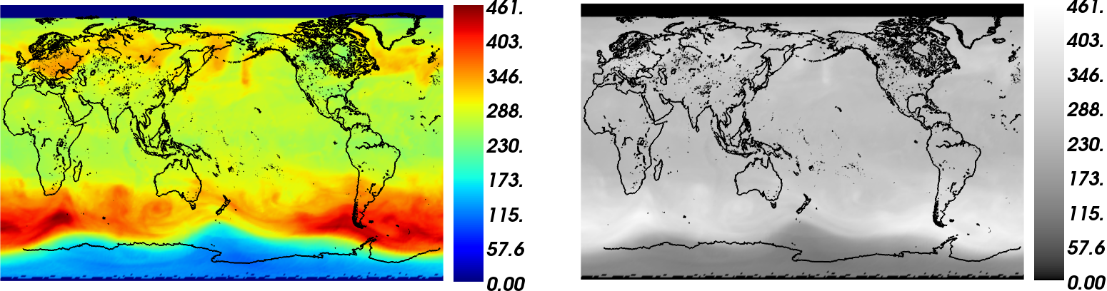 Generated by me using MayaVi and the ozone dataset.